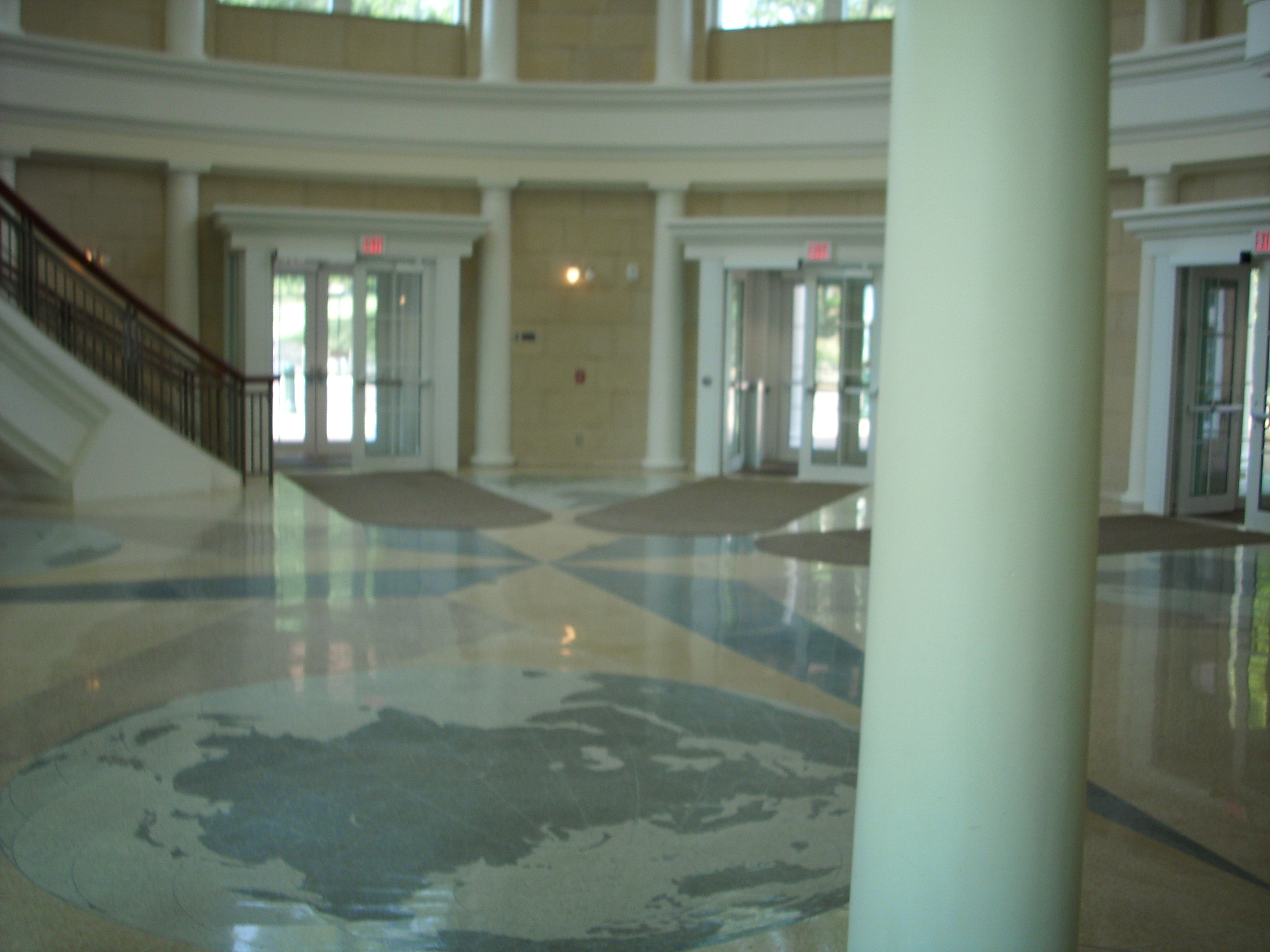 baker